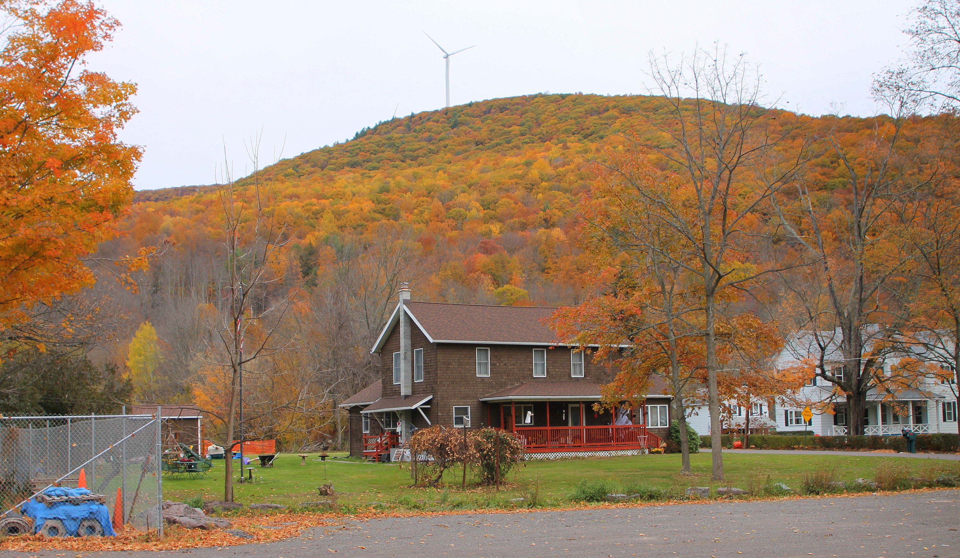 Hill near Noxen, Pennsylvania, with a wind turbine